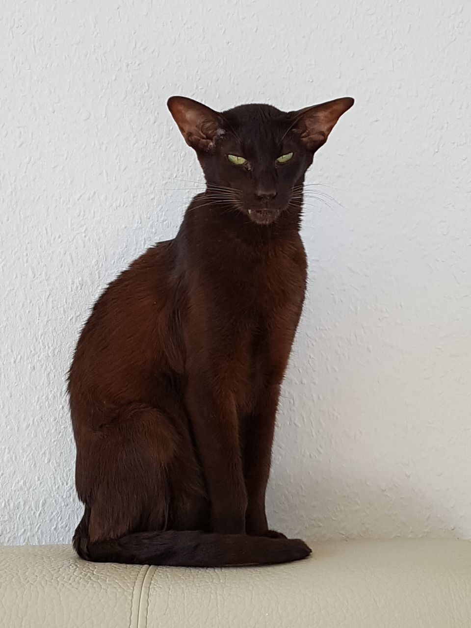 Orient Shorthair, OSHb, Chocolate Havana color